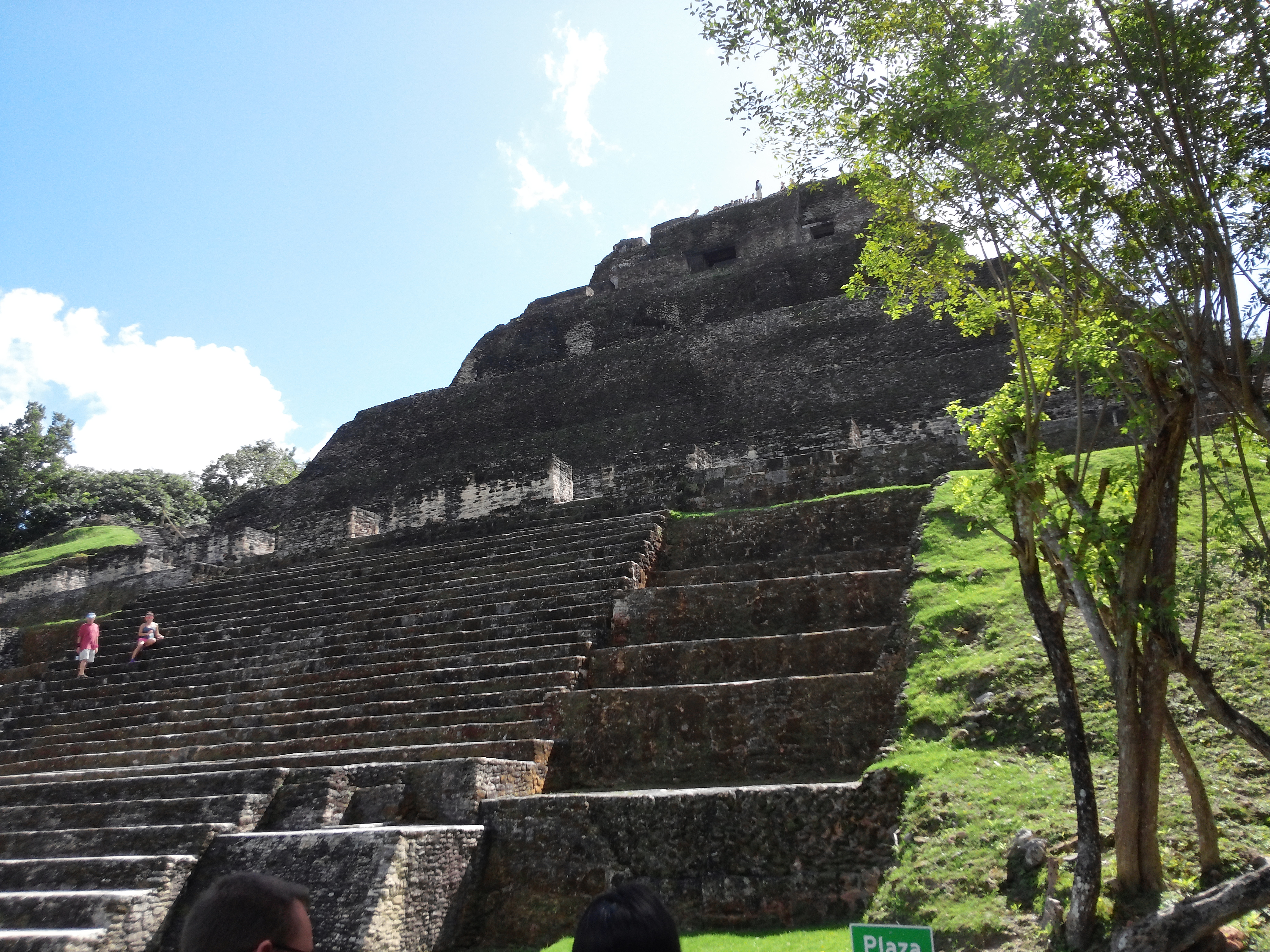 El Castillo, Xunantunich